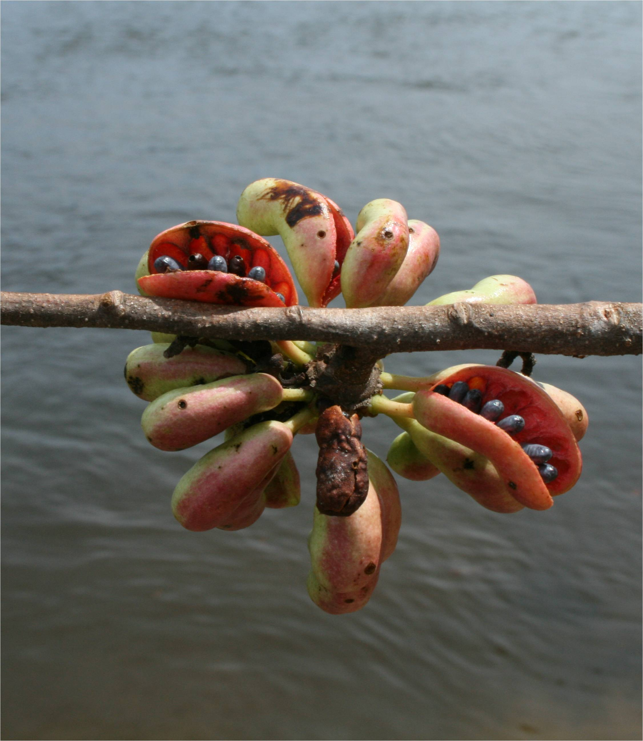 Fruit of Xylopia aromatica, Rio Ventuari, Venezuela